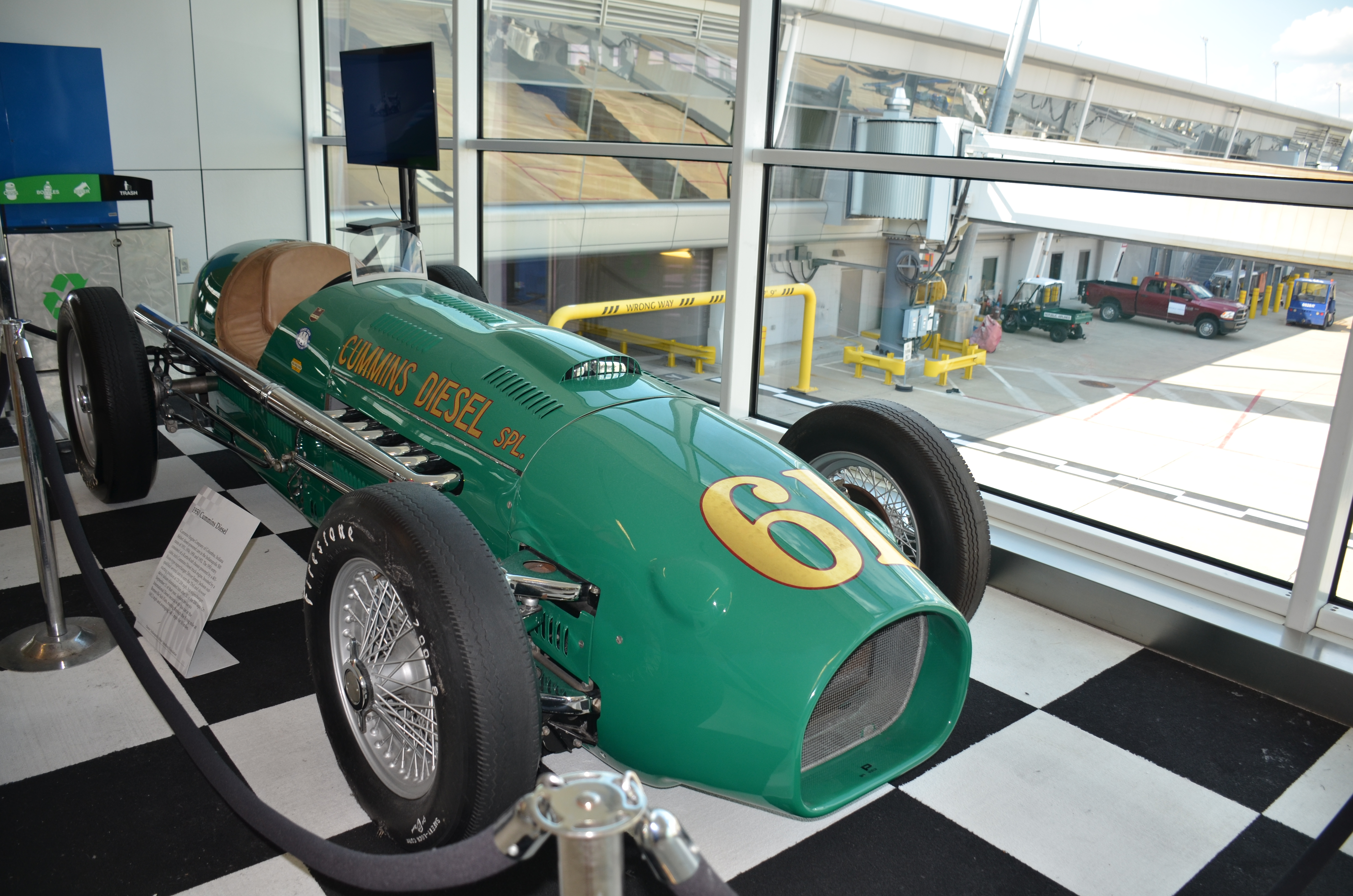 1950 Cummins Diesel. On display at Indianapolis Airport terminal in 2016.